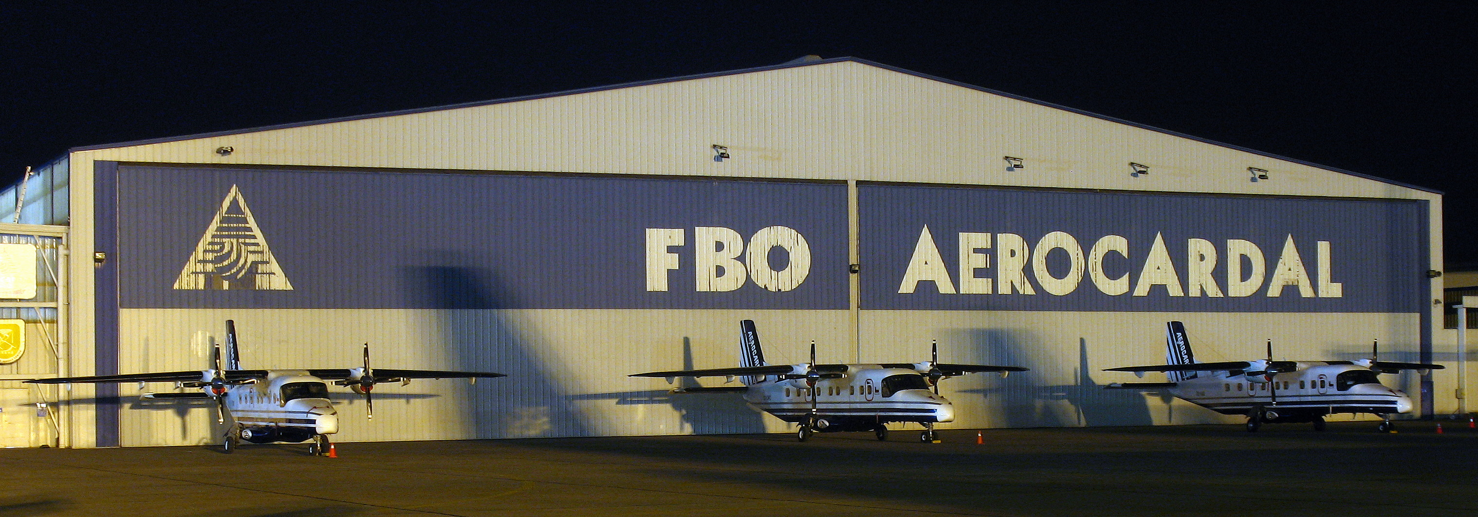 Dornier 228 of Aerocardal at its FBO hangar